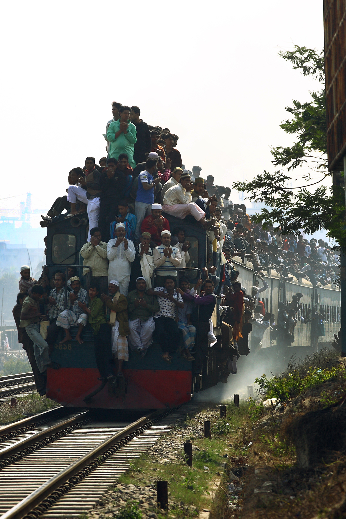 Akheree Monajat - the final prayer, special prayer held on Sunday 11:00 hrs local time (GMT+6). These passengers are going to attend the program, but due to delay are taking prayer while traveling.